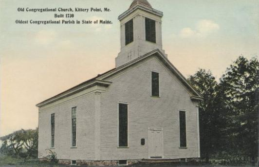 Old Congregational Church, Kittery Point, ME; from a c. 1912 postcard.